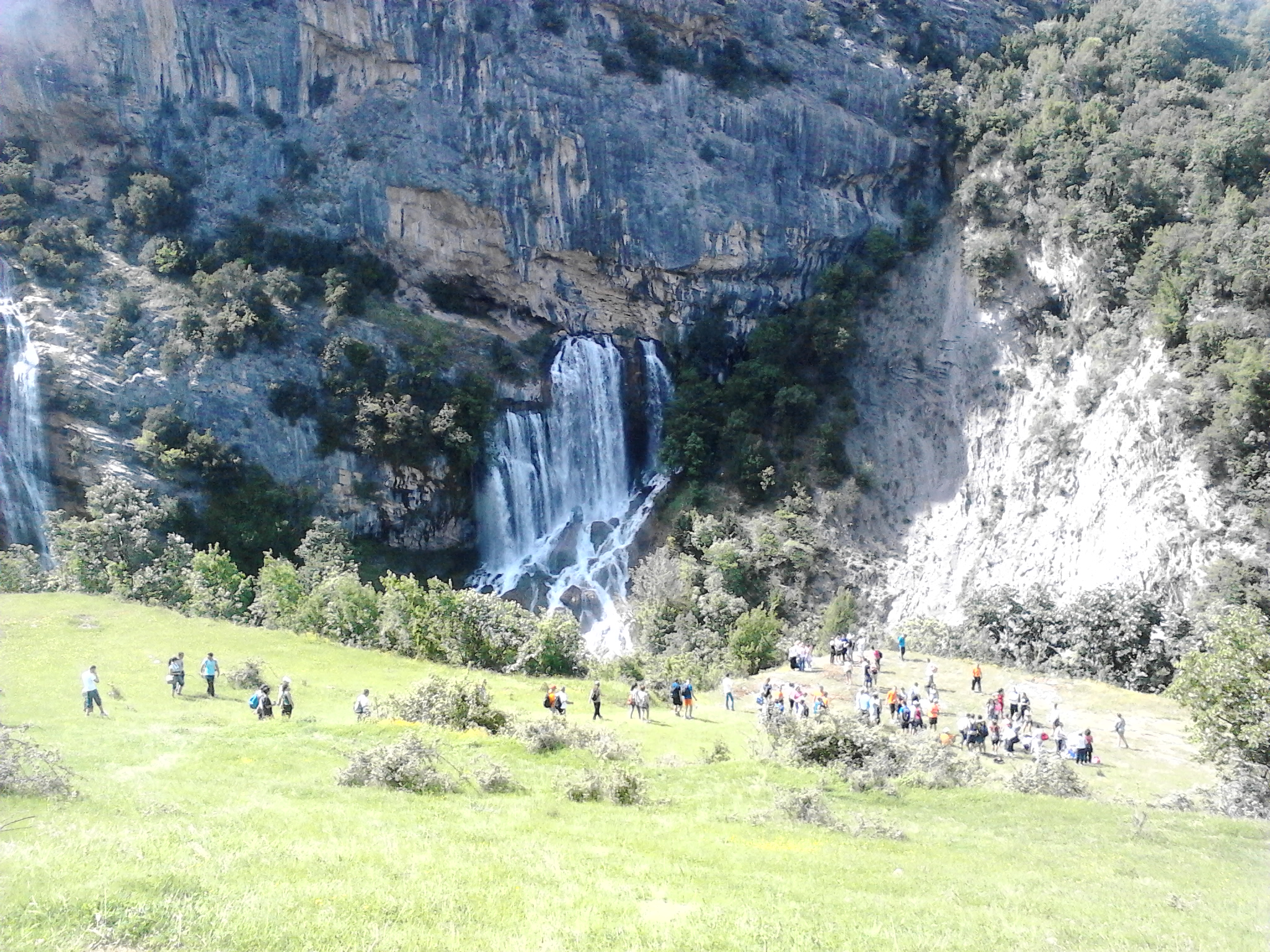 Sotira Waterfall located in Gramsh, Elbasan, ALbania. Disclaimer: I took this photo as part of a hiking trip with AST Elbasani Hiking Agency. Other participants took some of the photos and shared on their profiles. So this photo can be found also on facebook or website of the agency.